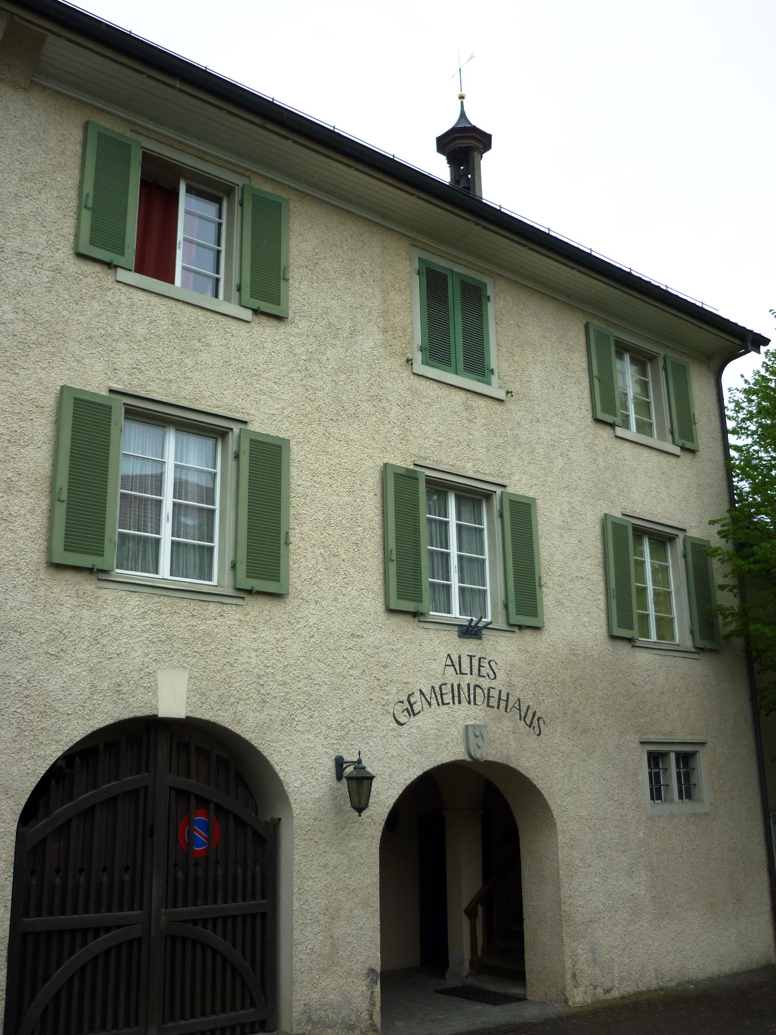 Islikon TG, Switzerland